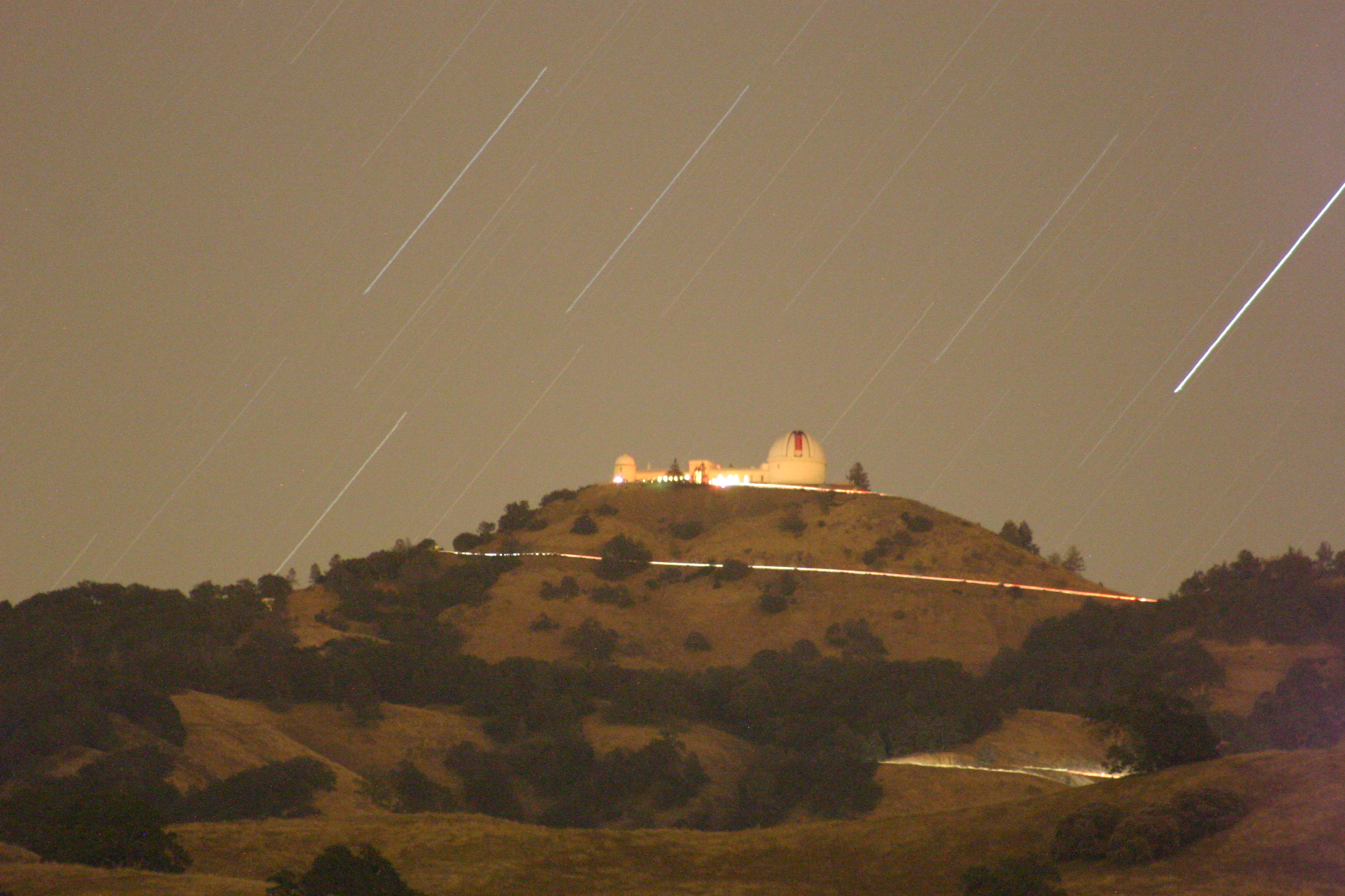 Lick Observatory on Mt Hamilton at night taken from Grant County Park, timed exposure tracks movement of stars in sky and car driving down Hwy 130 from the mountain